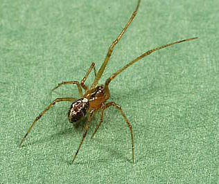 male Nipponidion okinawense from Okinawa.